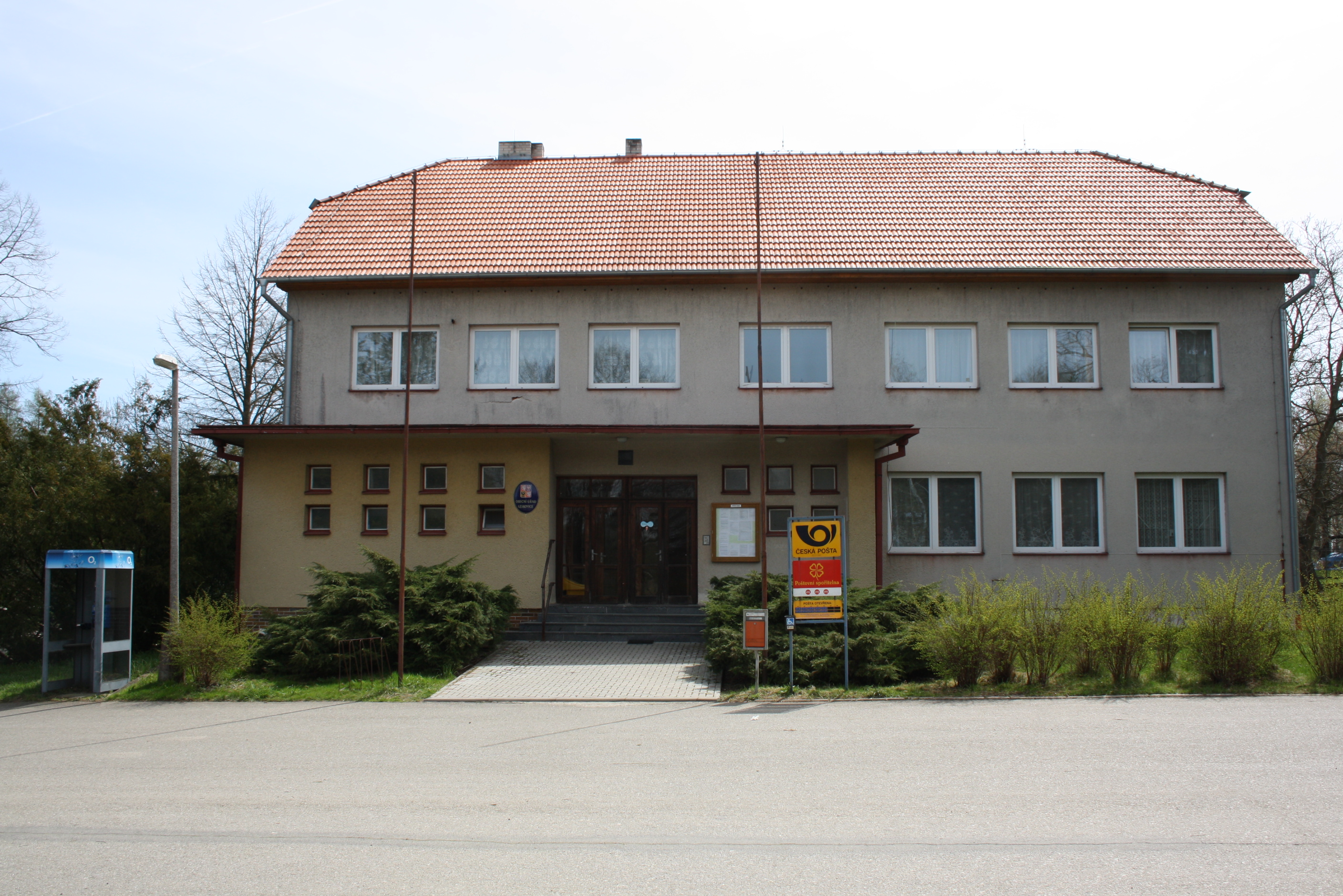 Leskovice, Pelhřimov District, Czech Republic